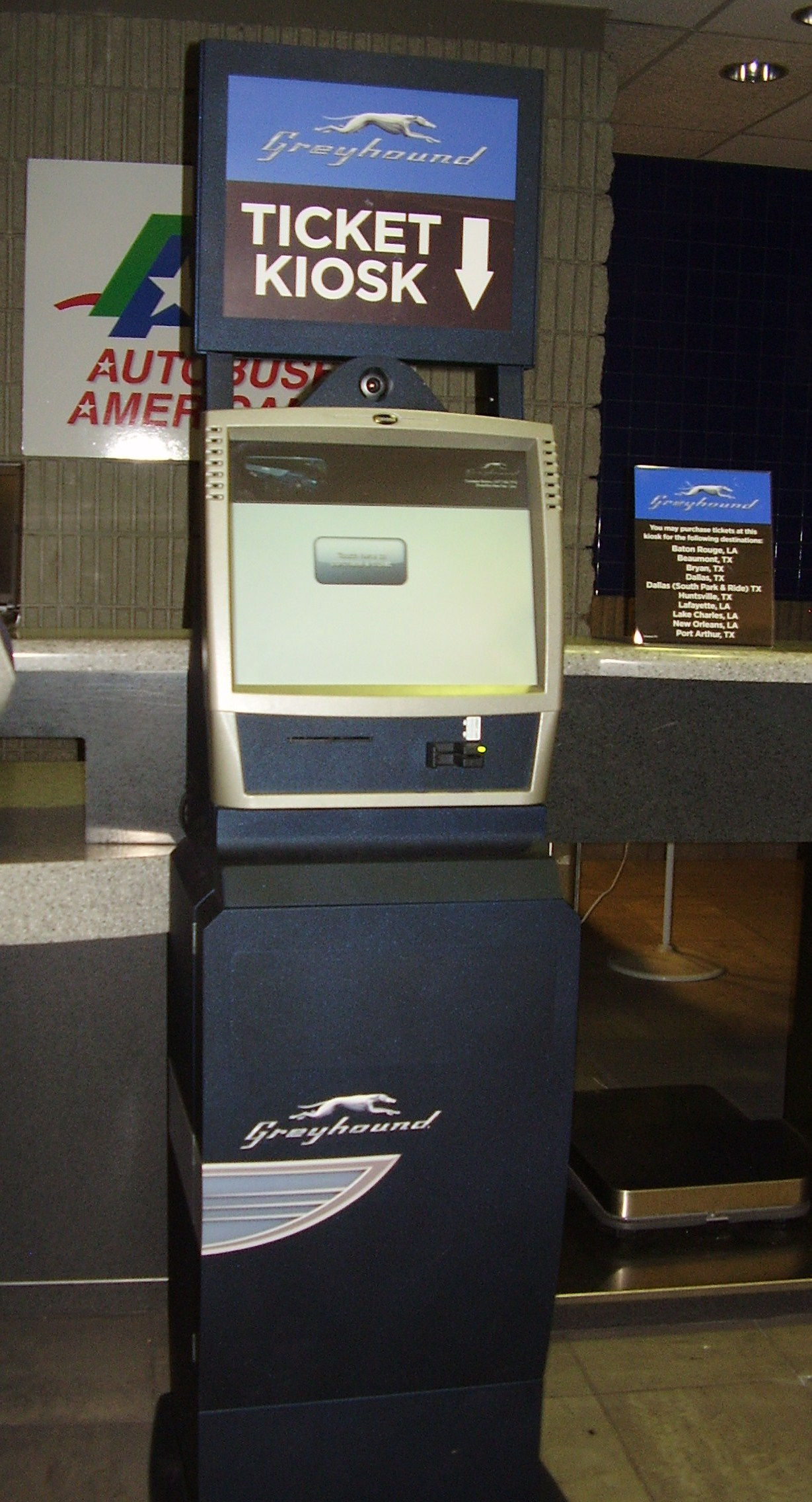 Greyhound Lines ticket kiosk at the Houston Station